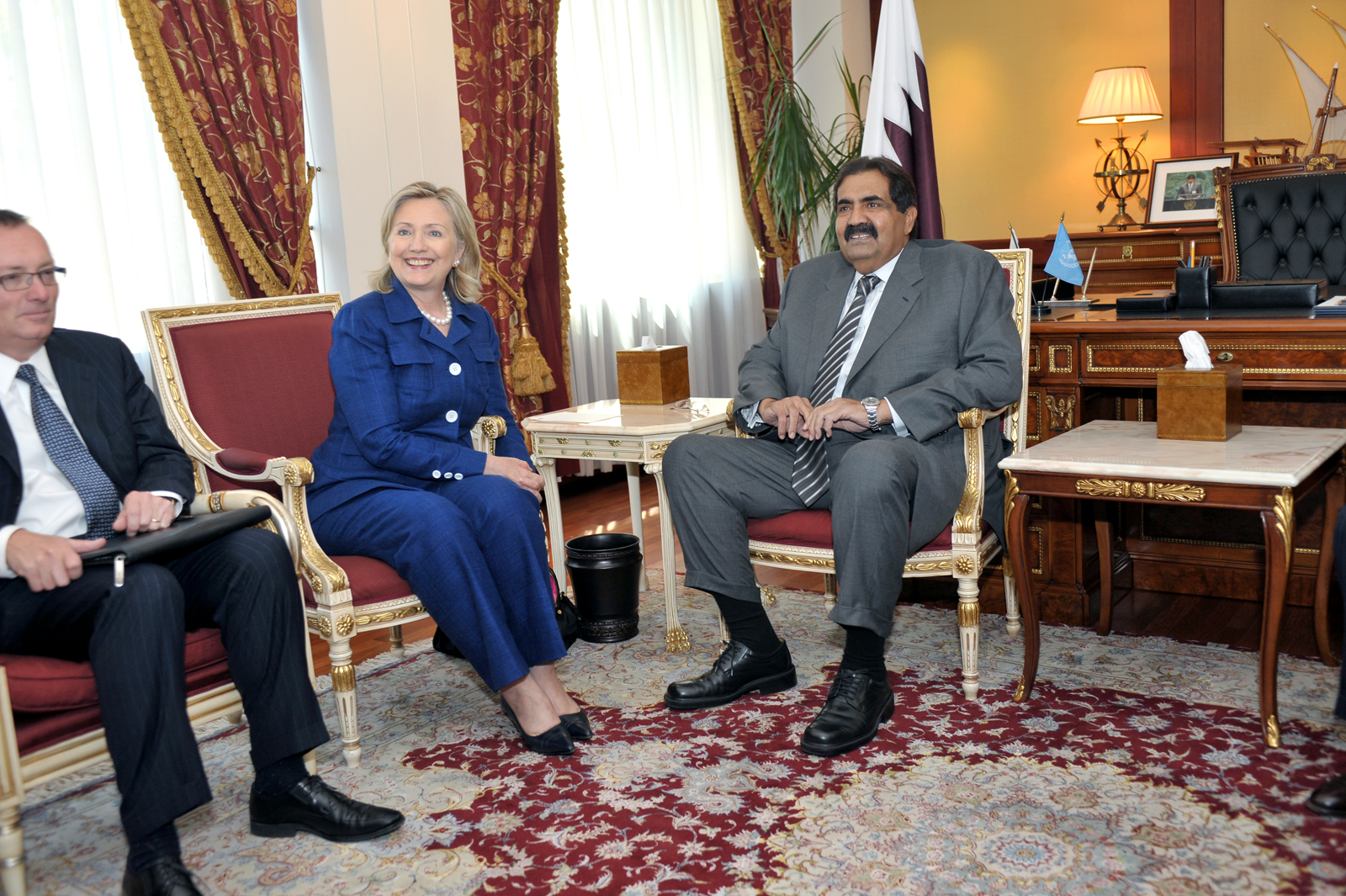 U.S. Secretary of State Hillary Rodham Clinton holds a bilateral meeting with Qatari Emir Hamad al Thani at the Qatari Mission to the UN in New York City. in New York, New York, on September 21, 2010. [State Department photo/ Public Domain]